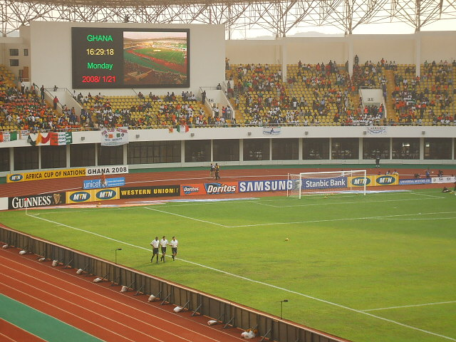 Sekondi-Takoradi Stadium inside and Scoreboard, Sekondi-Takoradi, Ghana.